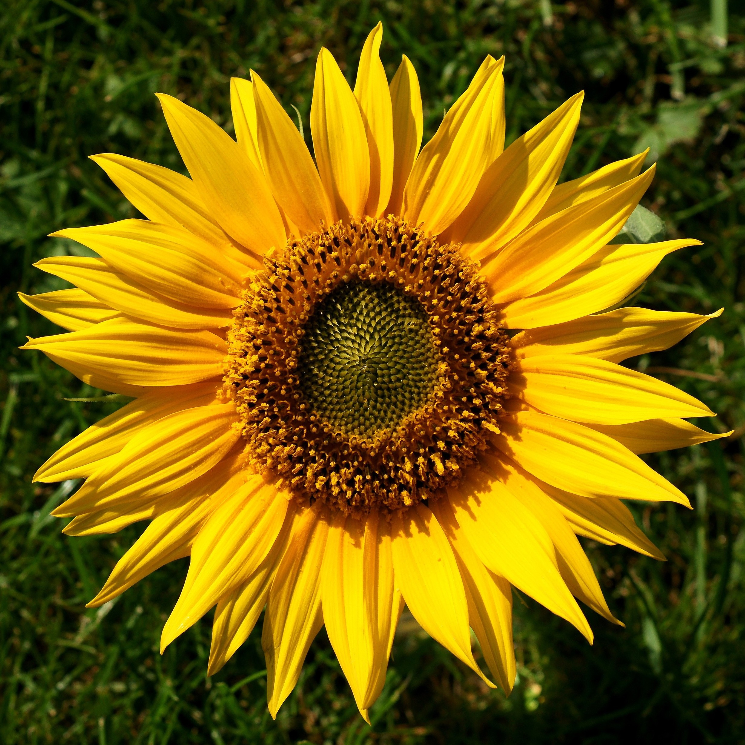 SunflowerThe sunflower (Helianthus annuus) is an annual plant in the family Asteraceae and native to the Americas, with a large flowering head (inflorescence).